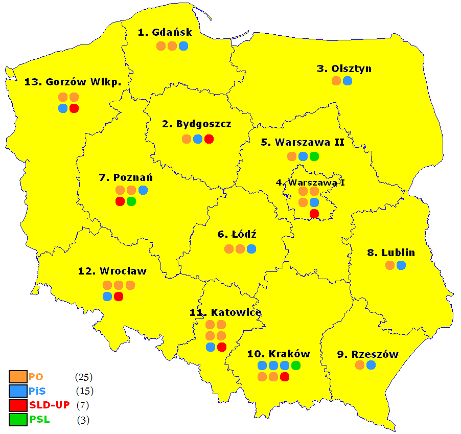 european election 2009 in Poland